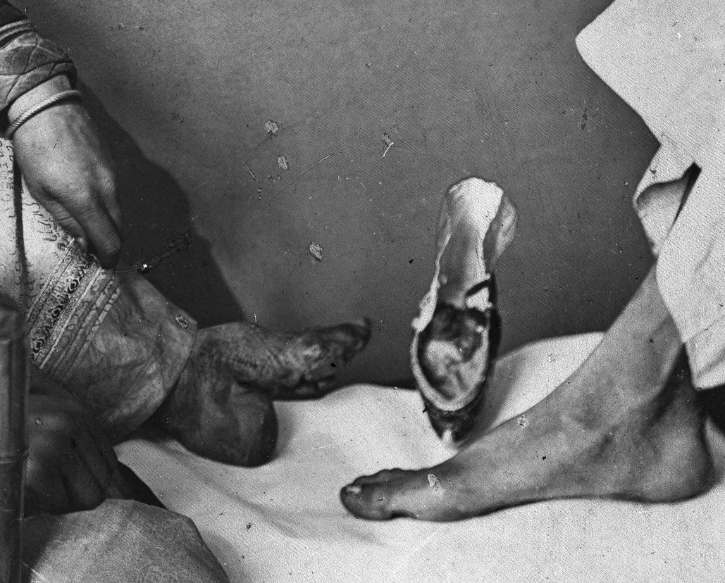 Woman with bound feet, shown next to the unbound foot of another person. Iconographic Collections Keywords: John Thomson